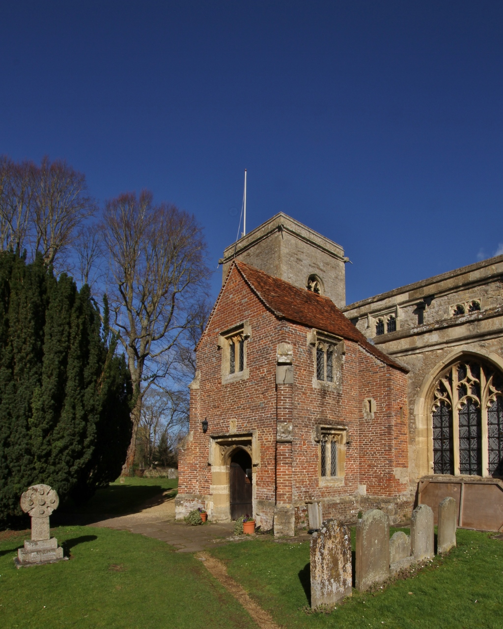 15th-century south porch of All Saints' parish church, Sutton Courtenay, Oxfordshire (formerly Berkshire), seen from south-southeast, with the top of the 12th-century west tower in the background